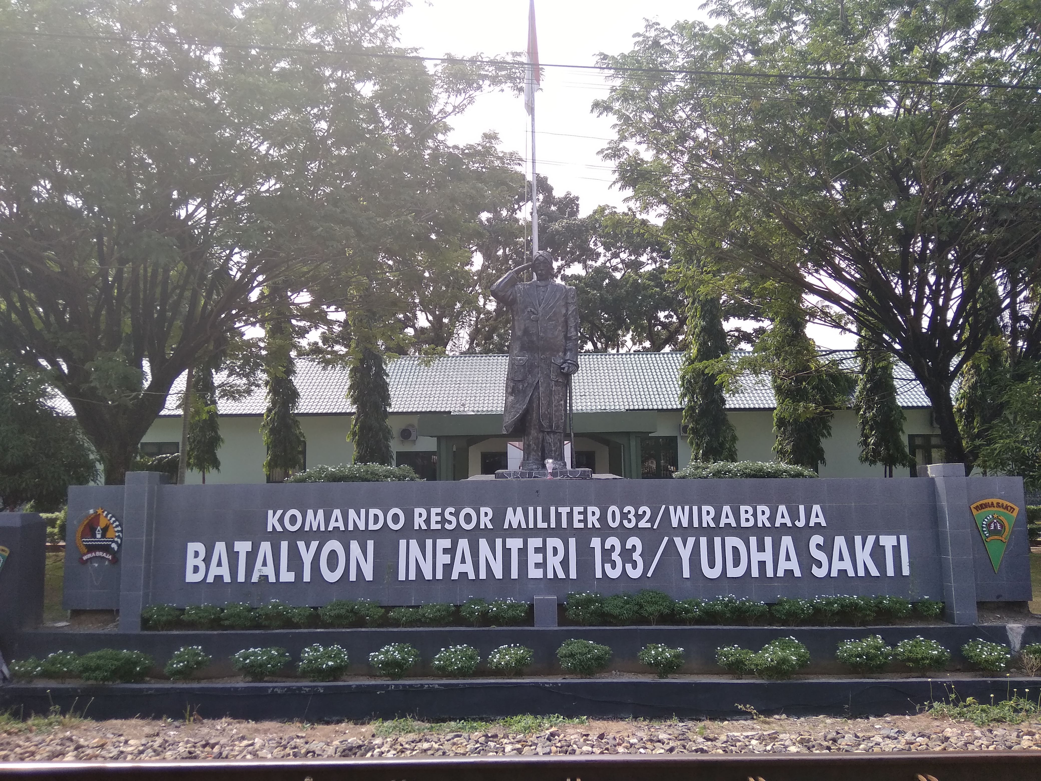 Headquarters of 133 Infantry Battalion / Yudha Sakti in Prof. Dr. Hamka street, Air Tawar, North Padang, Padang city, West Sumatra, Indonesia.